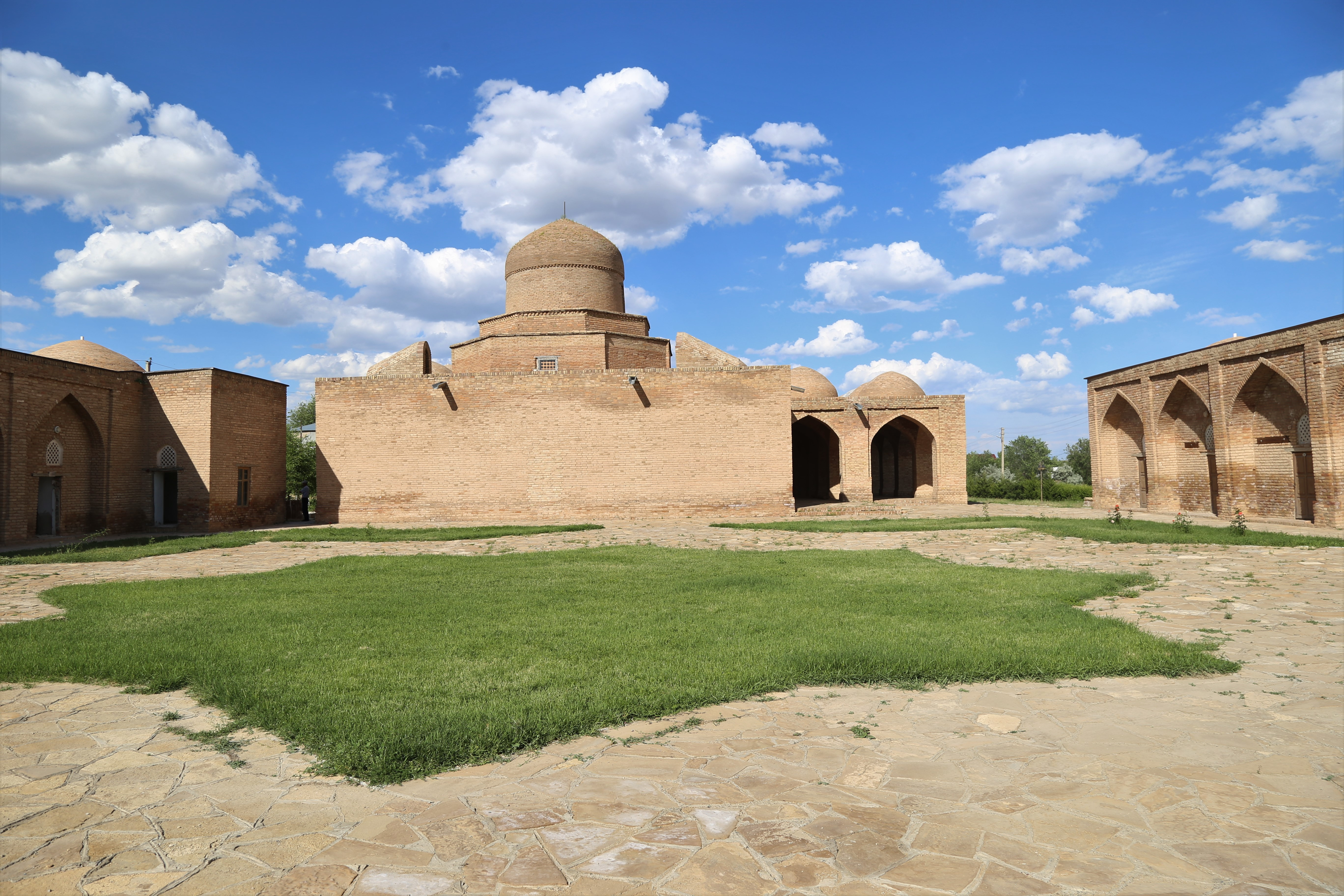 Appak Ishan Mosque-Medrese